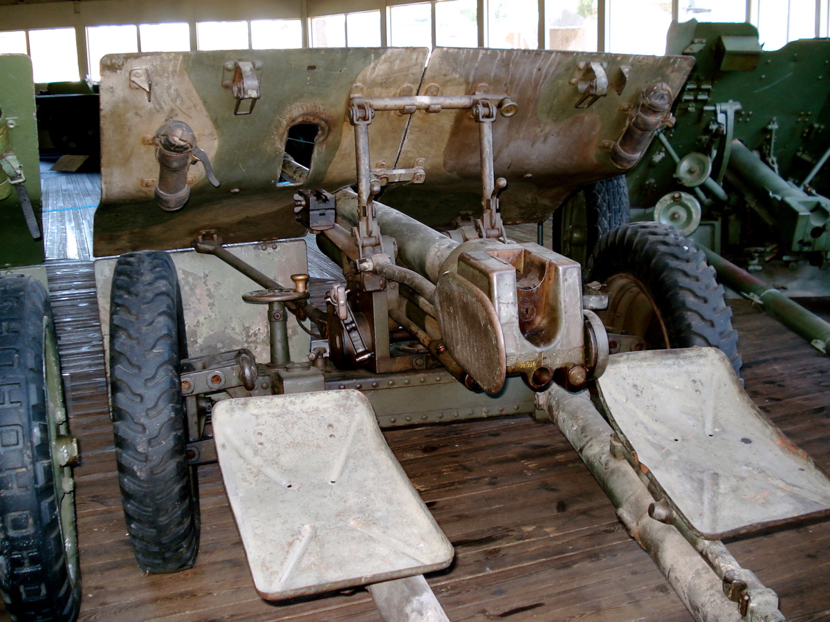 Polish 37 mm anti-tank gun wz. 1936 (a license copy of Swedish Bofors 37 mm anti-tank gun) displayed in Finnish Tank Museum (Panssarimuseo) in Parola. Photo taken on July 14, 2006. Source: Photo by me, User:Balcer.